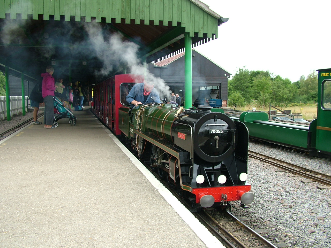 Eastleigh Lakeside Railway, near to Southampton International Airport, Hampshire, Great Britain. 10� inch gauge Britannia Pacific 70055 "Rob Roy" arriving at Eastleigh Parkway station on the Eastleigh Lakeside Railway in Lakeside Country Park, Wide Lane, Eastleigh. The line is dual gauge so that both 10� inch and 7� inch gauge locomotives can be used. This makes the pointwork complicated though.